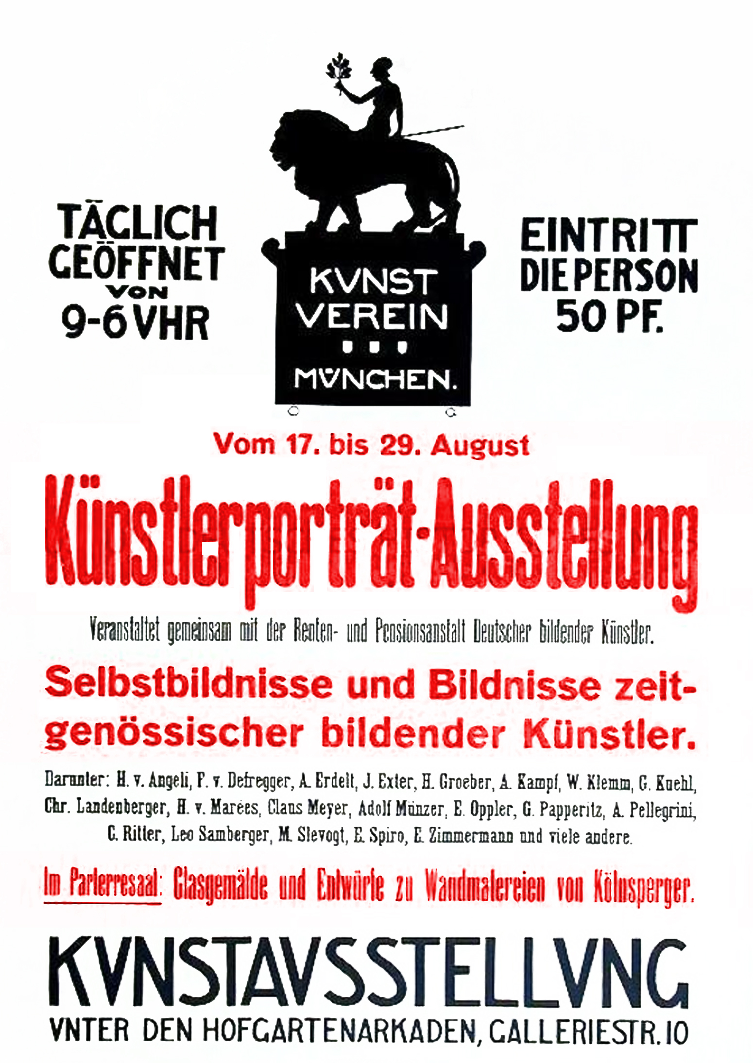 Poster of the Munich Secession, 1910